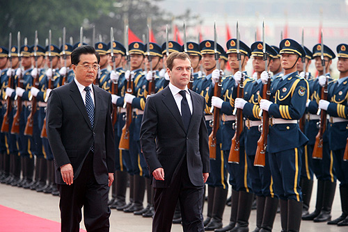 BEIJING. Official welcome ceremony. With President of China Hu Jintao.